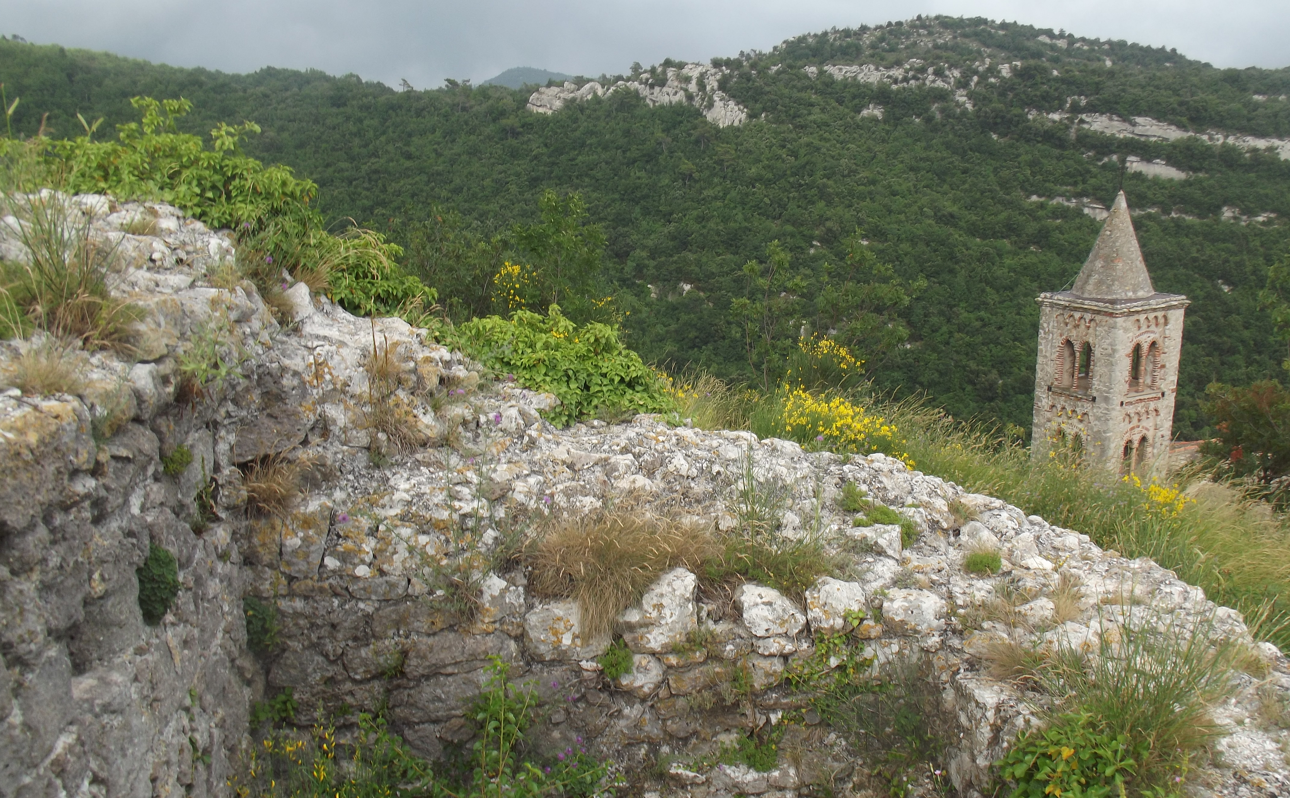 Orco (Orco Feglino, SV, Italy): castle ruins and Saint Lornenzino bell tower